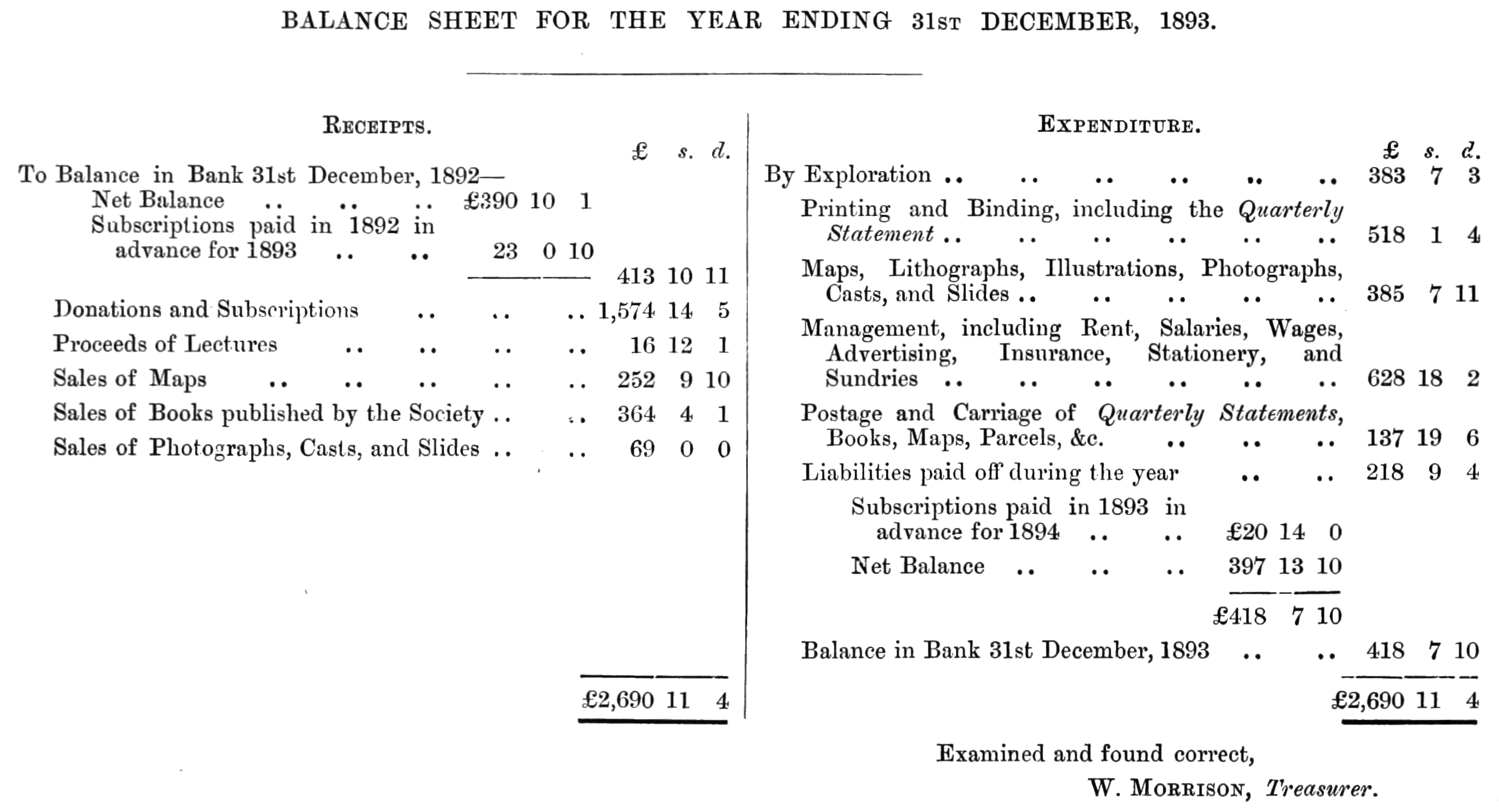 Balance sheet for year ending December 31, 1893